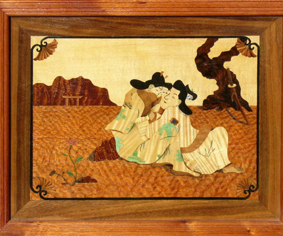 A Marquetry Picture derived from a Ukiyo-e wood print by Moronobu, showing the use of sand-shading and shellac-inking